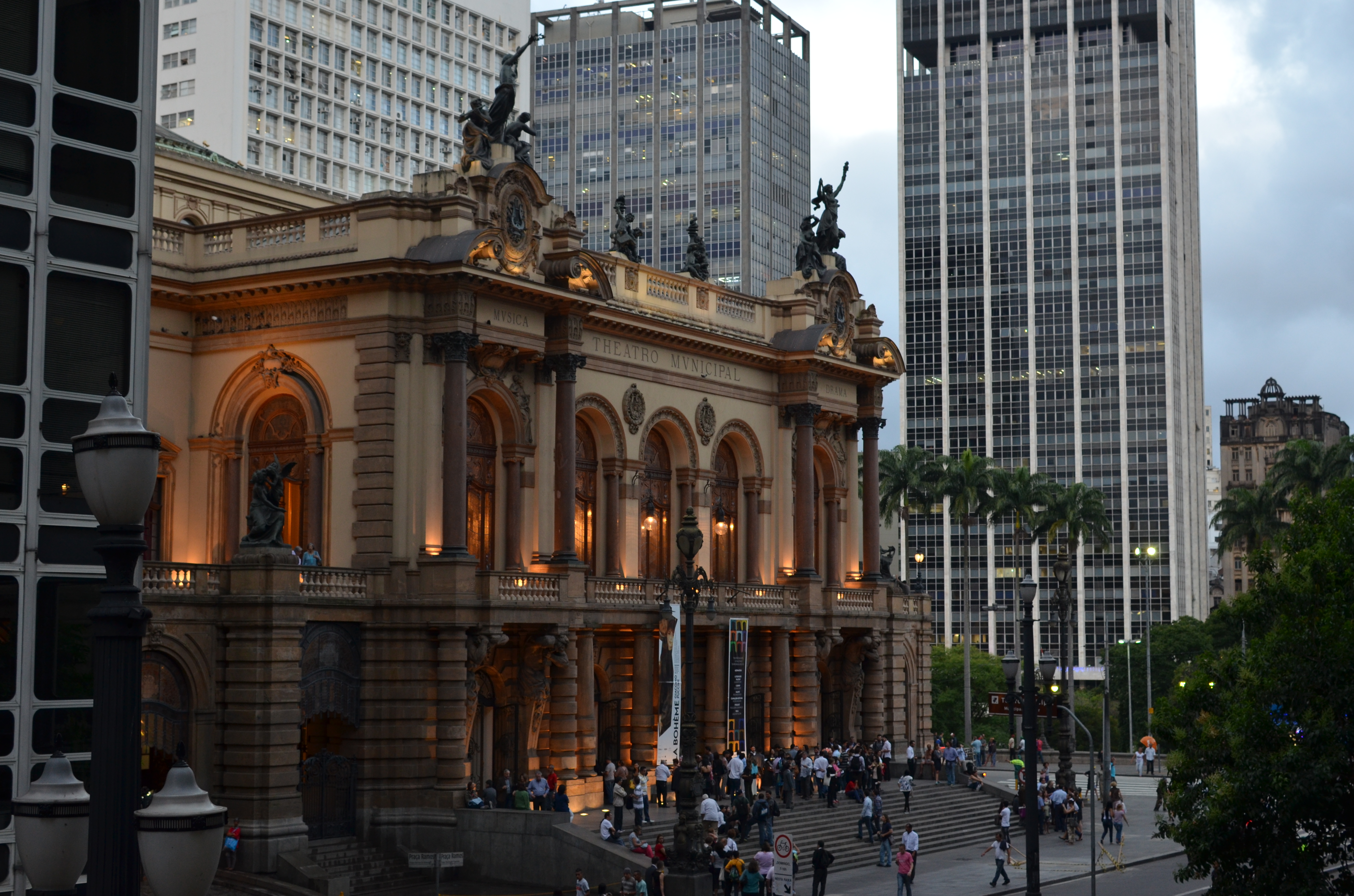 Theatro Mvnicipal